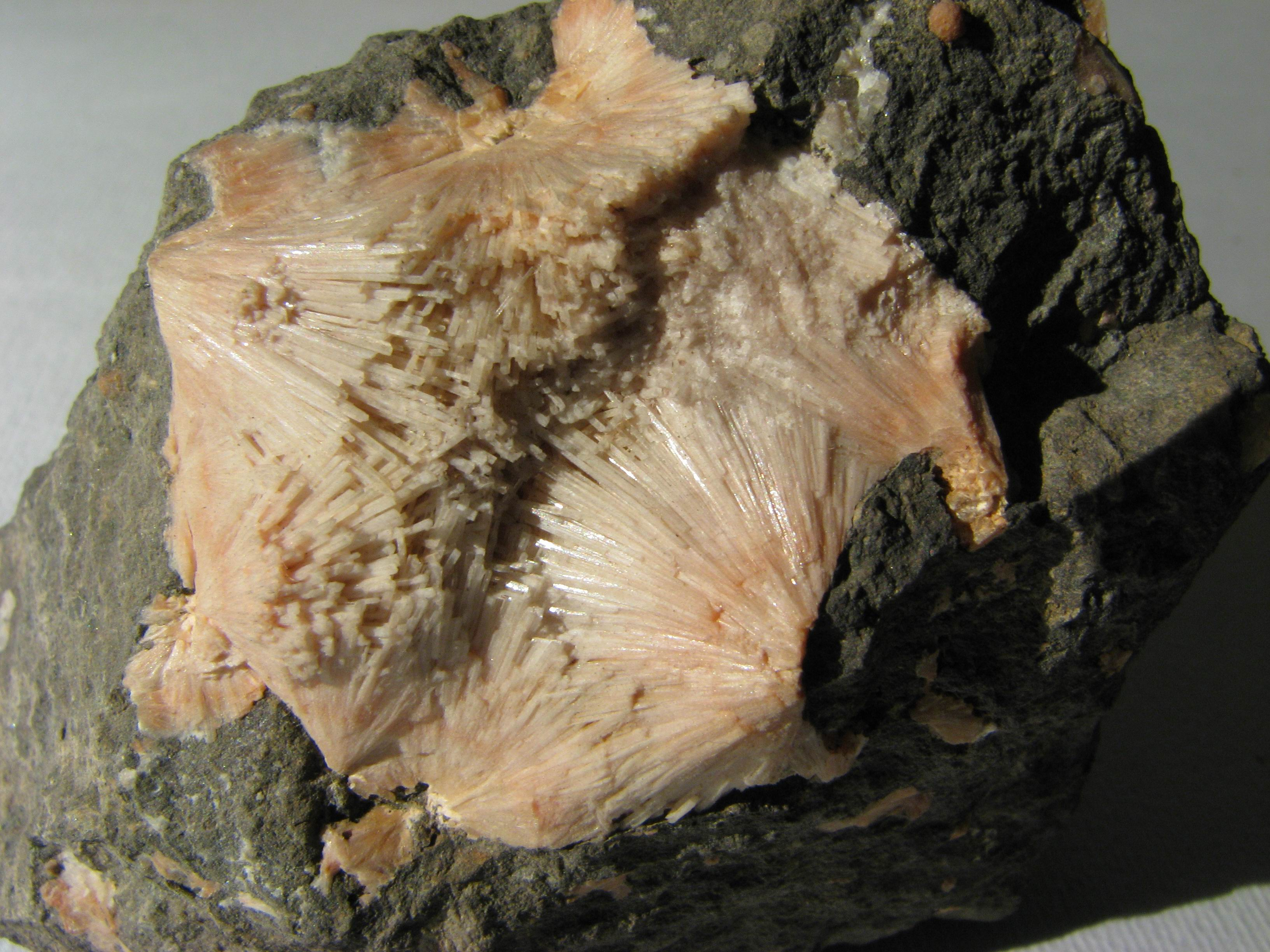 Natrolite, radiated aggregate - Monzoni, Val di Fassa, Trentino, Italy